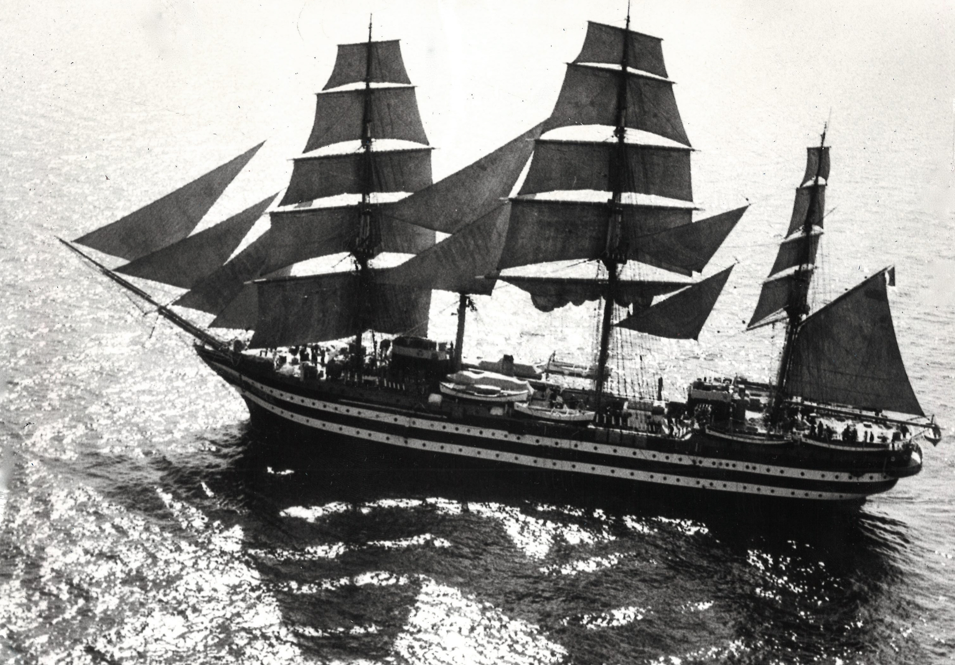 Photograph of the Italian vessel Amerigo Vespucci visiting Finland.